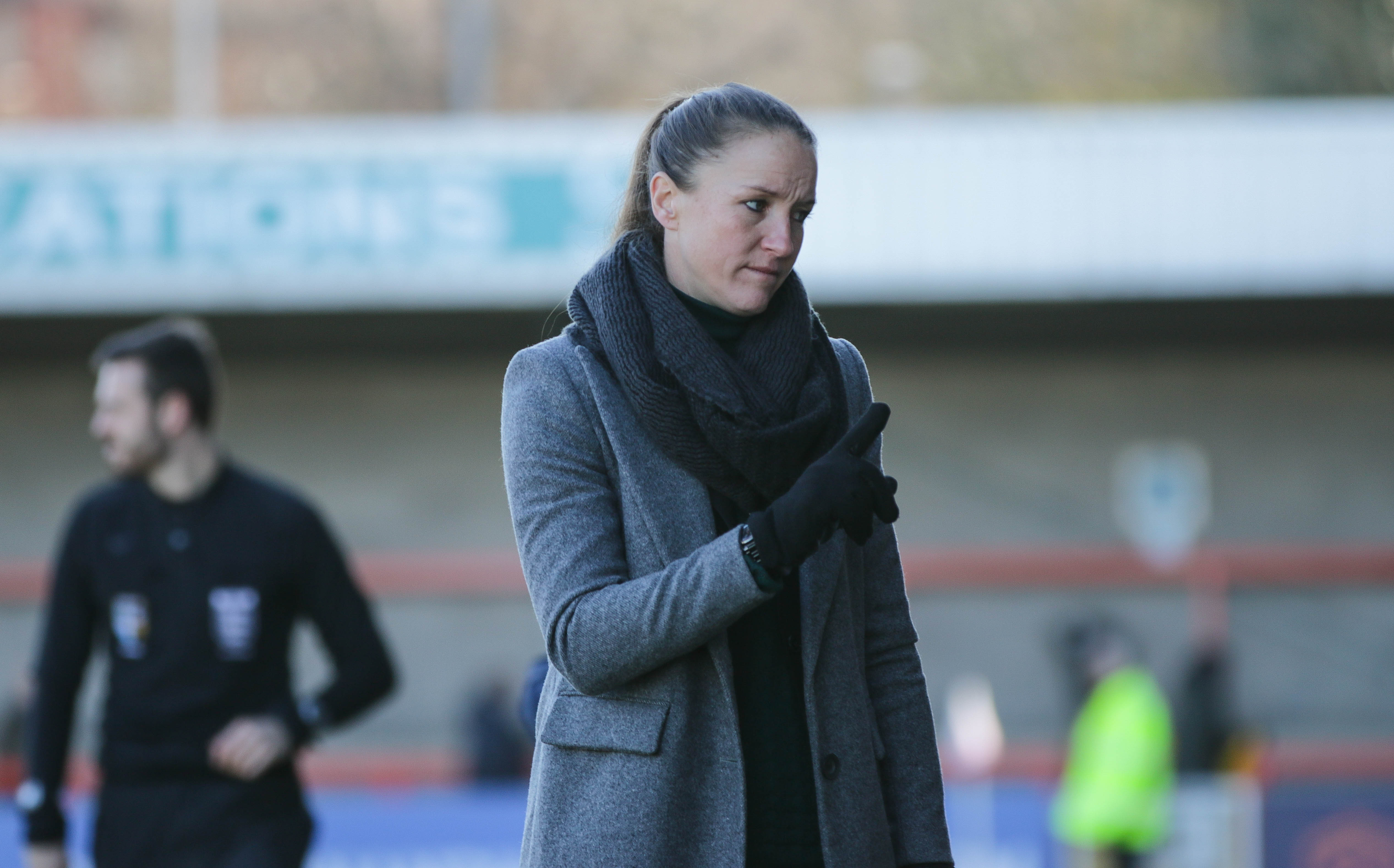 Casey Stoney